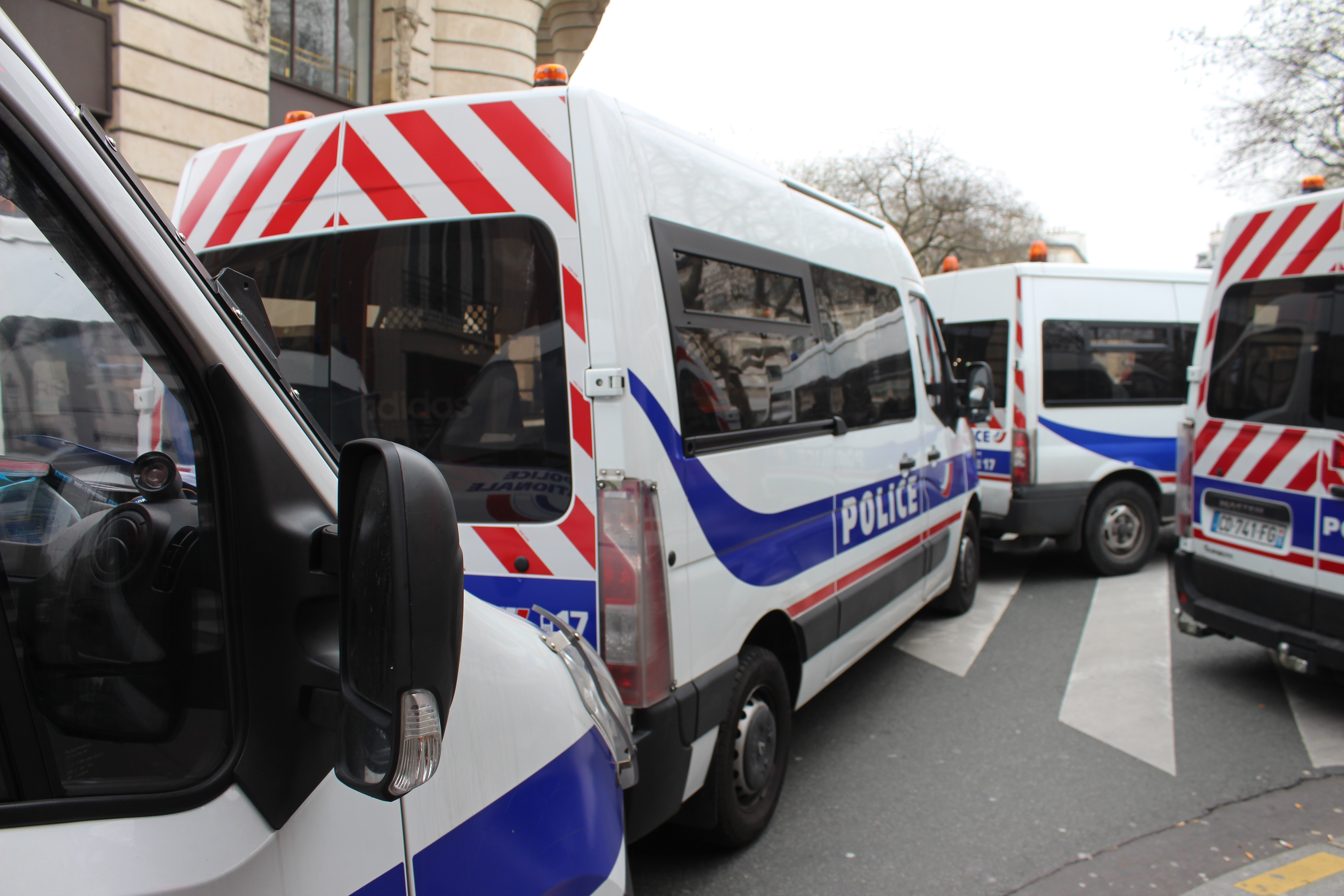 The 11th arrondissement of Paris shortly after the shooting at the headquarters of Charlie Hebdo